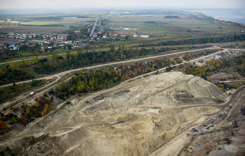 Kleszczów - widok z lotu ptaka